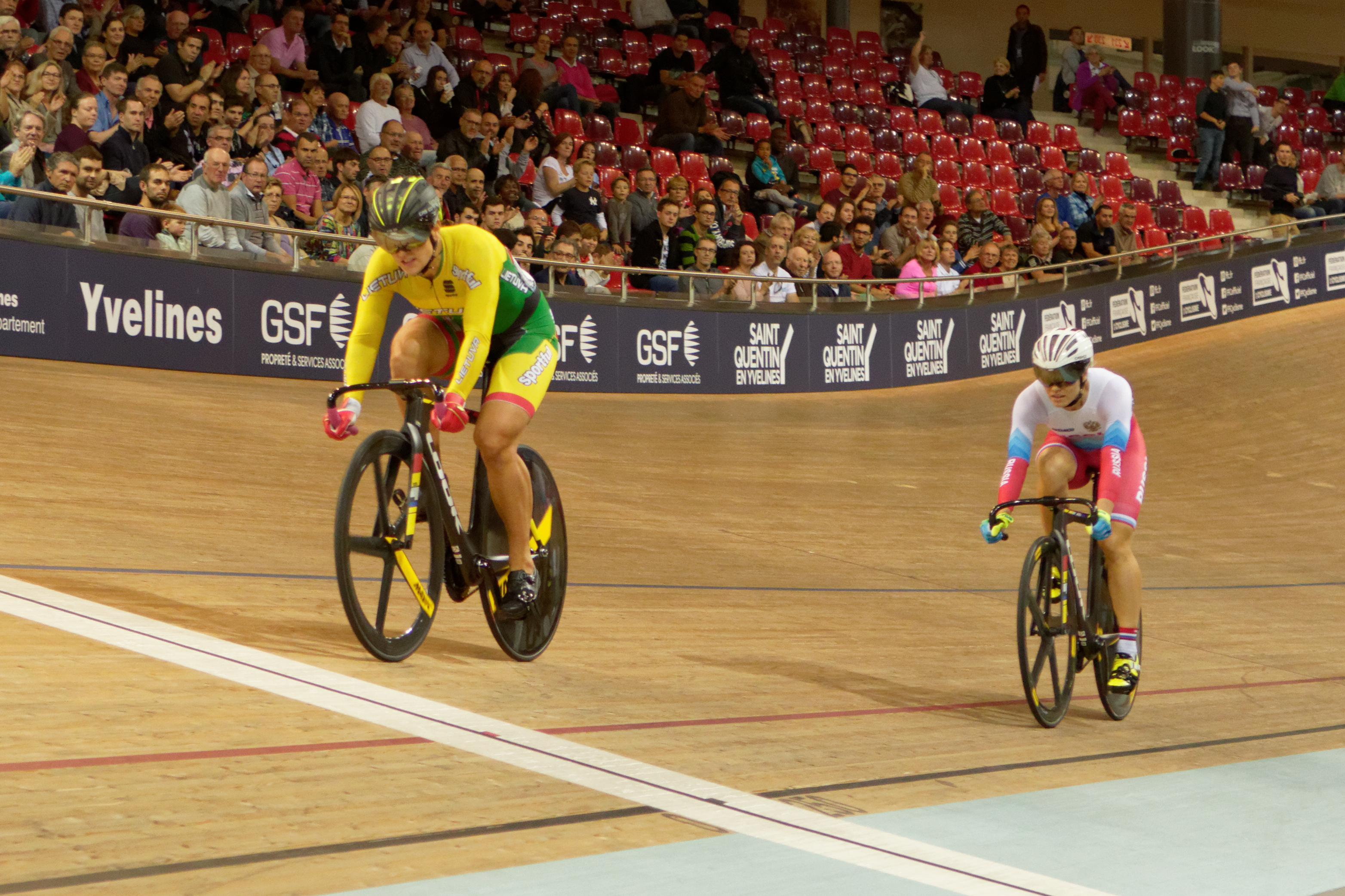 2016 UEC European Track Championships